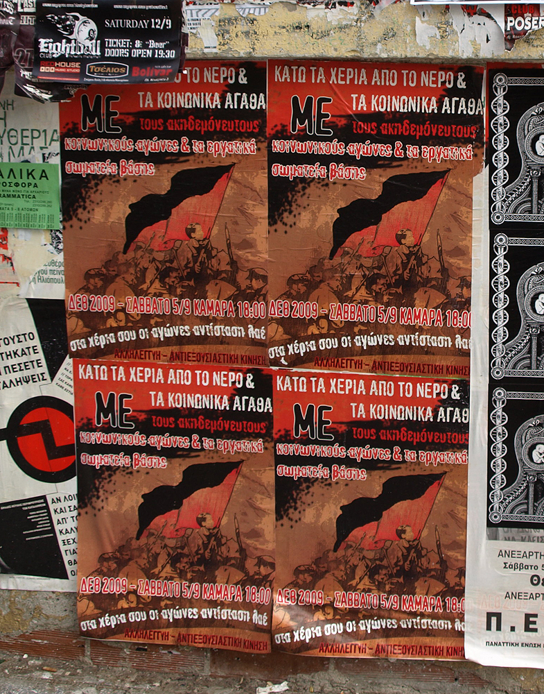 Anarchist Posters in the Streets of Thessaloniki Greece